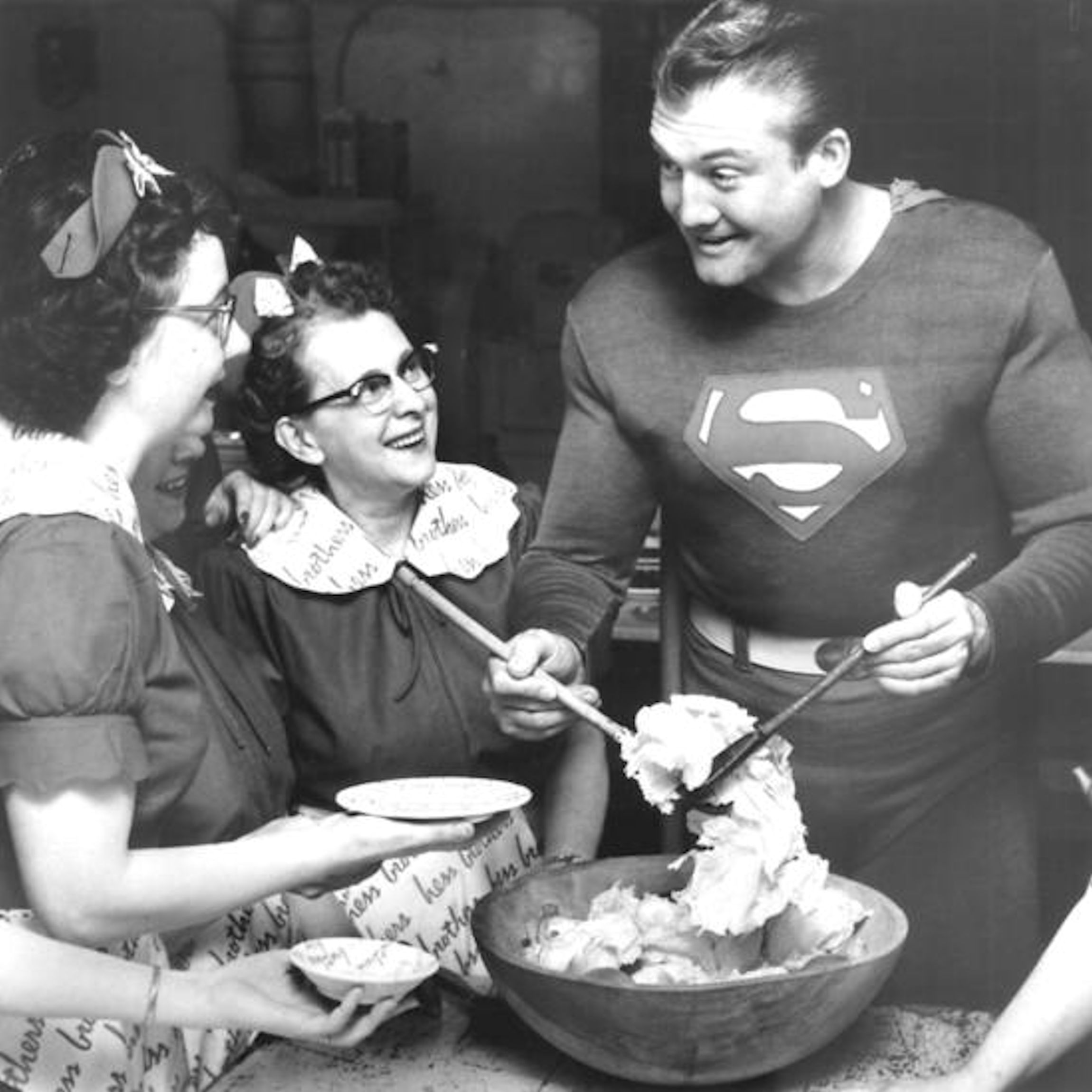 George Reeves at the Patio Restaurant - Hess Brothers - Allentown PA